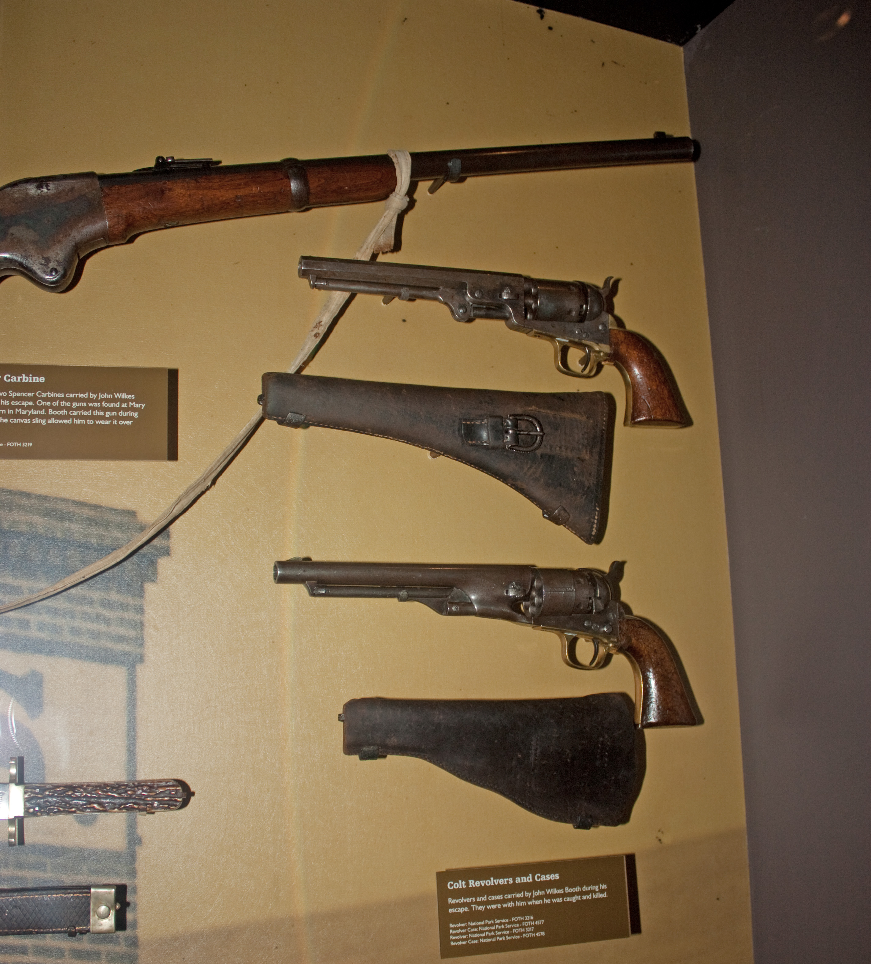 Guns carried by John Wilkes Booth when he was captured/killed, on display at Ford's Theatre museum in Washington, D.C.